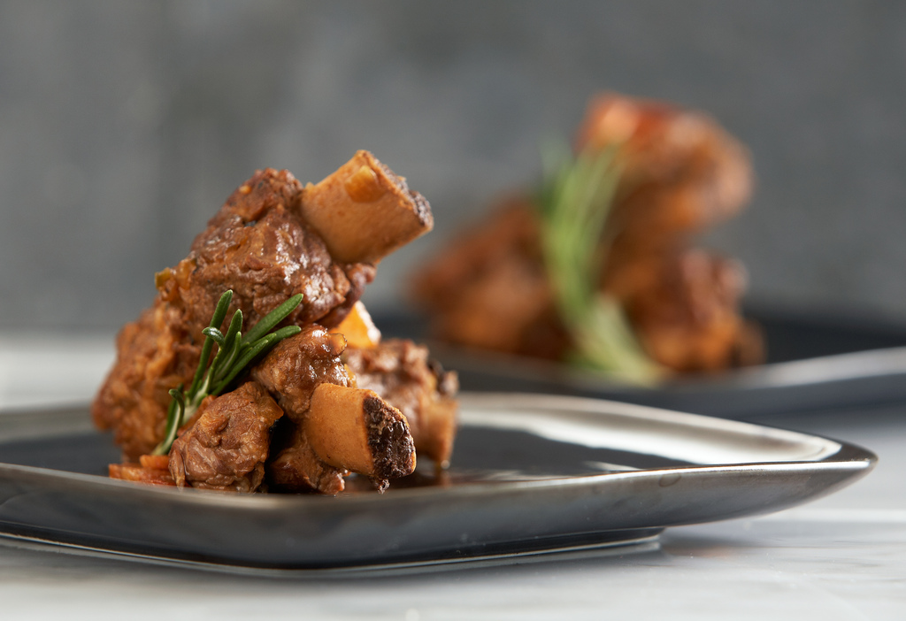 Espresso-Marinated Short Ribs 8of9